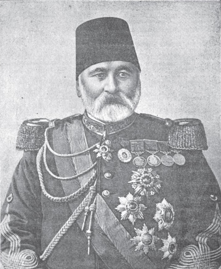 Ahmed Eyub Pasha, Ottoman general (1833-1893)